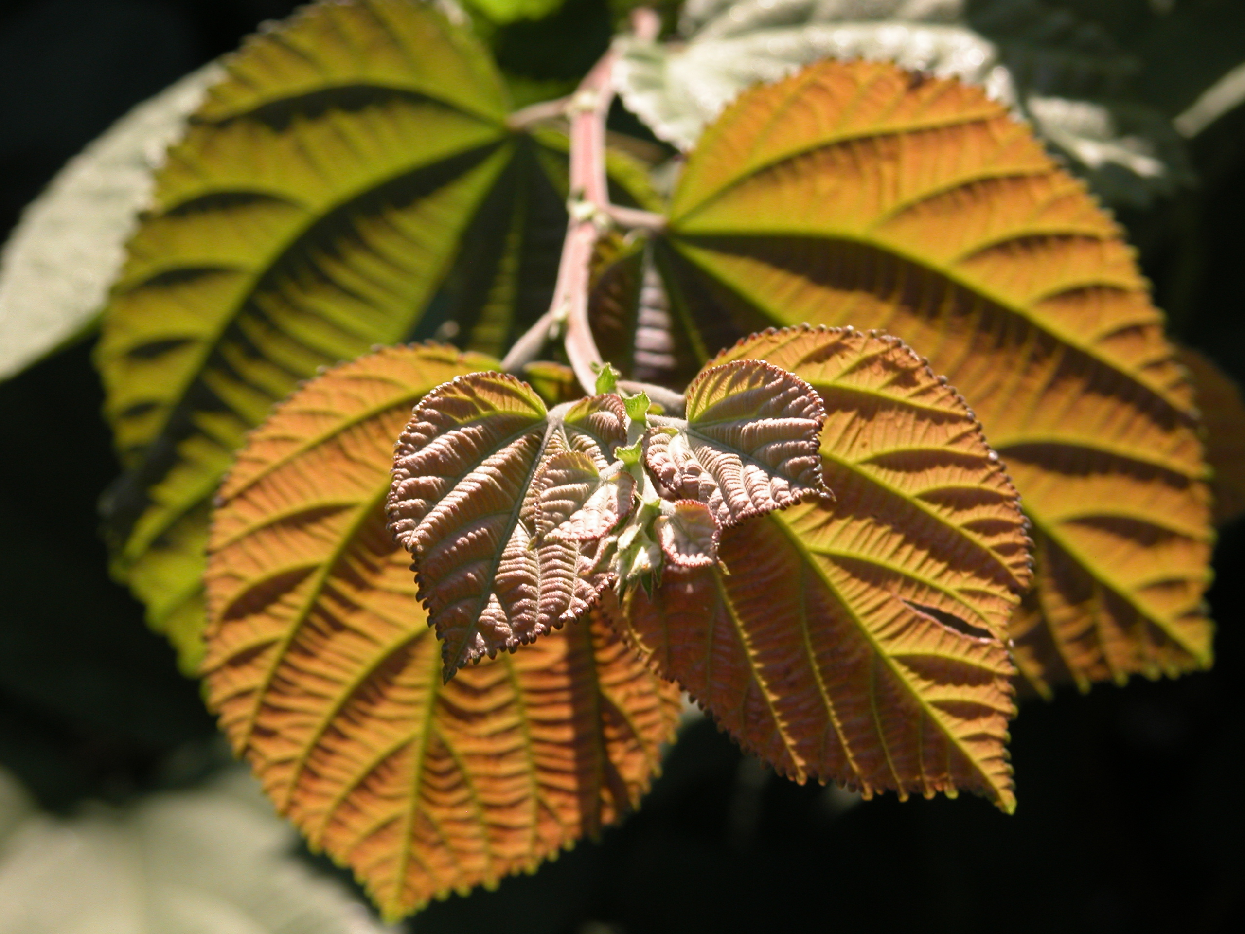 The Phalsa tree (Grewia asiatica / Tiliaceae) is located in the Ghosh Grove, Rockledge, Florida.